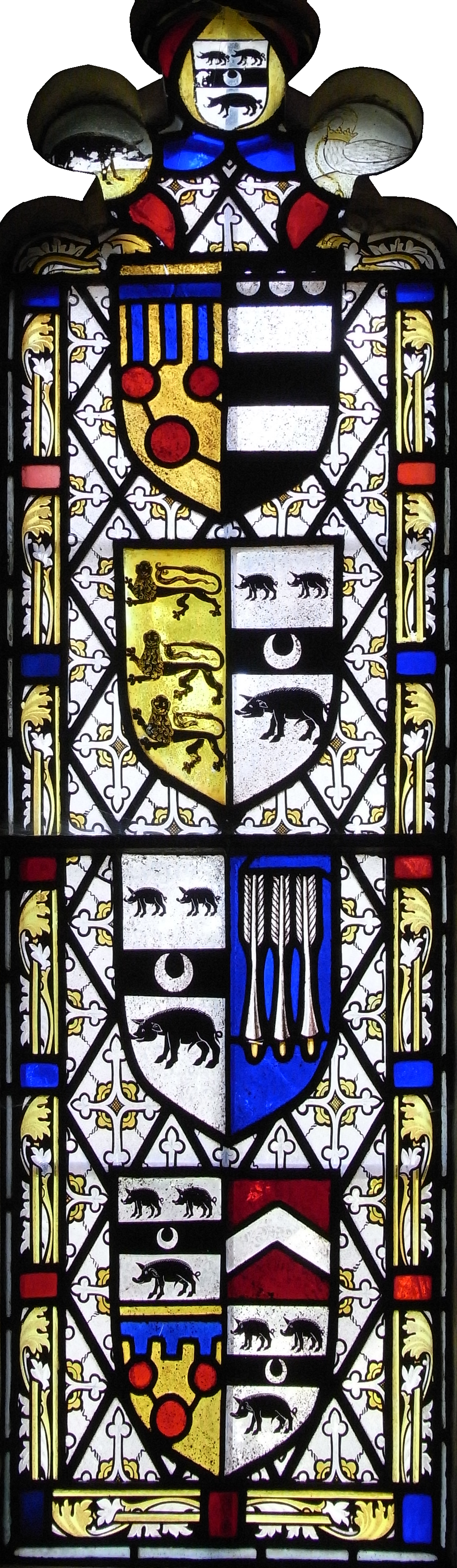 19th century heraldic glass concerning Sir William Huddesfield (died 1499) of Shillingford St George in Devon, Attorney-General to Kings Edward IV (1461-1483) and Henry VII (1485–1509). South side of chancel, Shillingford St George Church, Devon. Huddesfield heraldic window, 19th century, south side of chancel of Shillingford St George Church. Arms: trefoil at top: Left: Courtenay boar, one of the Courtenay supporters; right: Bohun swan, one of the Courtenay supporters; centre: Huddesfield arms (Argent, a fess between three boars passant sable (with a crescent argent for difference)). Top shield: Courtenay (Or, three torteaux a label of three points azure) impaling Hungerford (Sable, two bars argent in chief three plates), representing the marriage of the parents of Katherine Courtenay, wife of Sir William Huddesfield. 2nd shield down: Carew (Or, three lions passant guardant in pale sable) impaling Huddesfield, representing the marriage of Sir Edmund Carew and Katherine Huddesfield, daughter of Sir William Huddesfield. 3rd shield down: Huddesfield impaling Bosum (Azure, three bird-bolts argent[1]), representing Sir William Huddesfield's first marriage to Jennet or Elizabeth Bosum. Bottom shield: Quarterly 1st & 4th: Huddesfield; 2nd: Fulford (Gules, a chevron argent); 3rd: Courtenay. (incorrect heraldic usage, quartering should only show arms of heiresses)